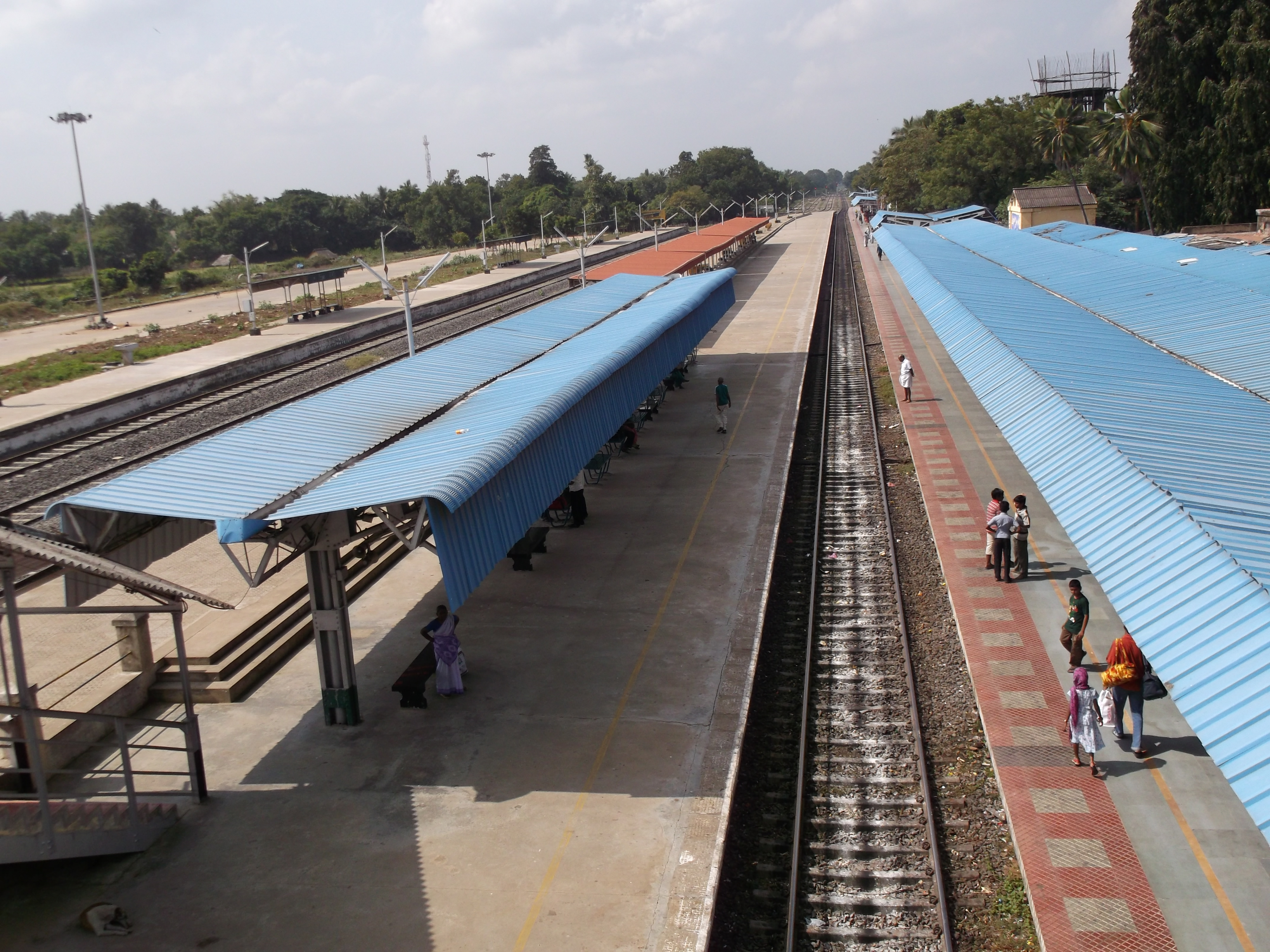 Kumbakonam railway station, southern side, taken on 27-Jan-2013